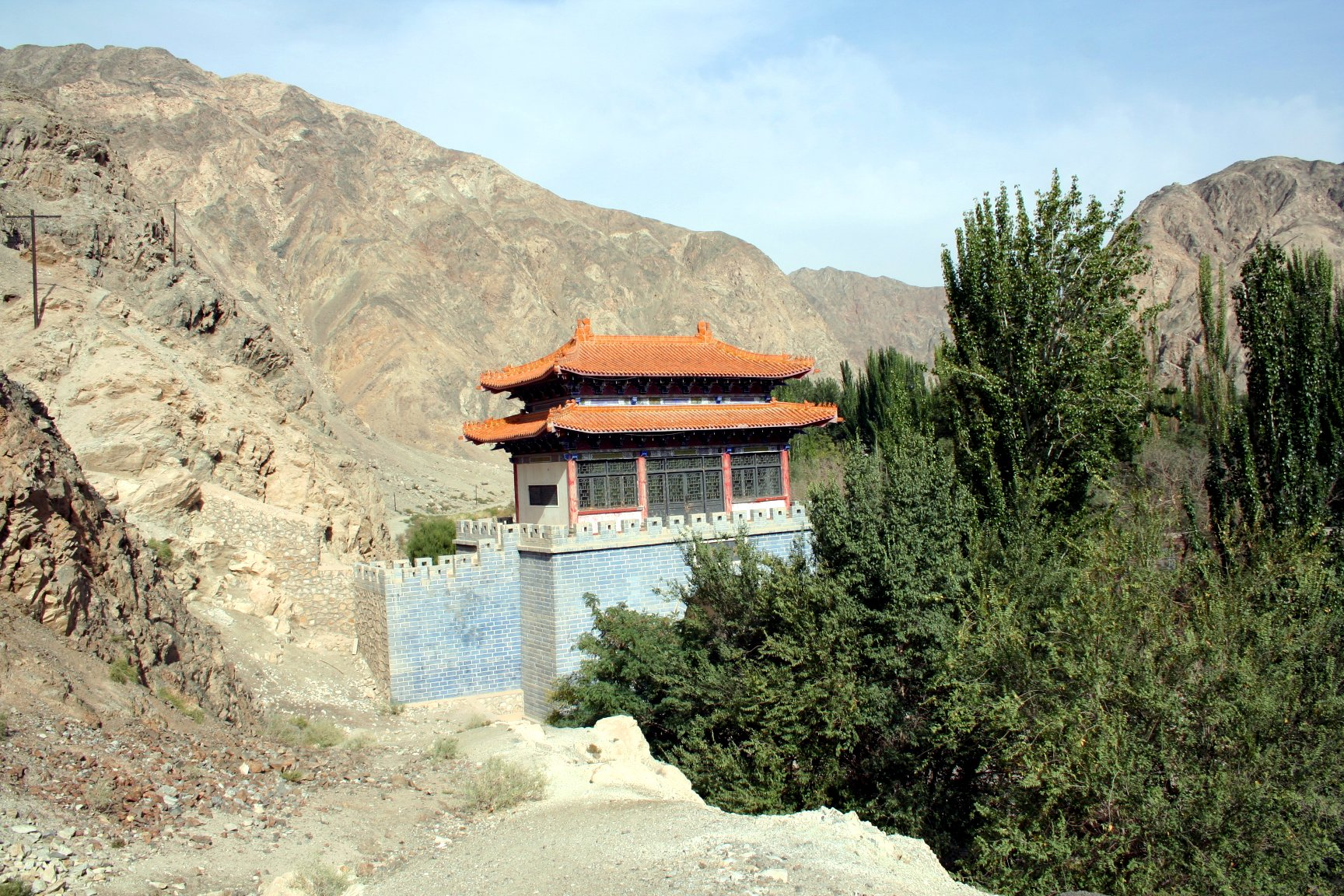 Photograph of the Iron Gate Pass (Tiĕmén Guān) in central Xinjiang, People's Republic of China.